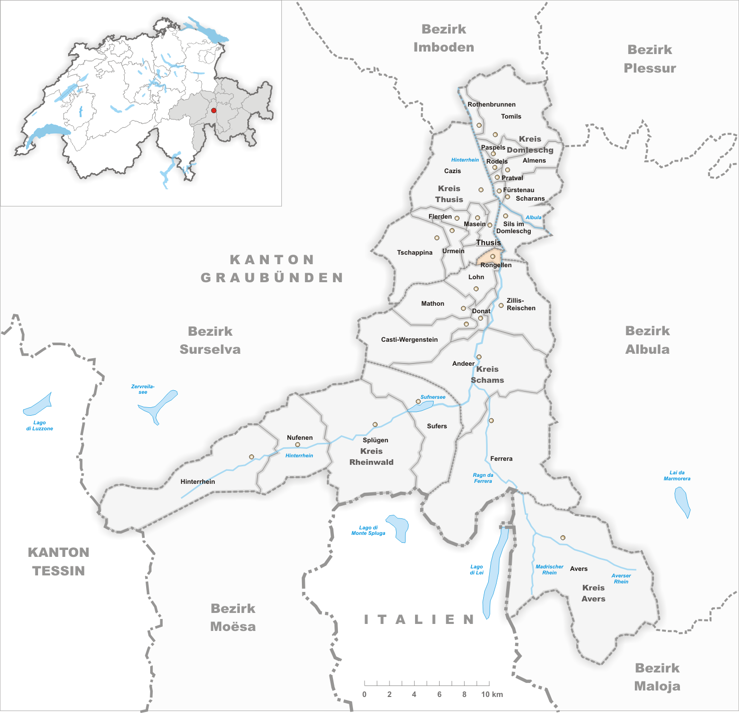 Municipality Rongellen